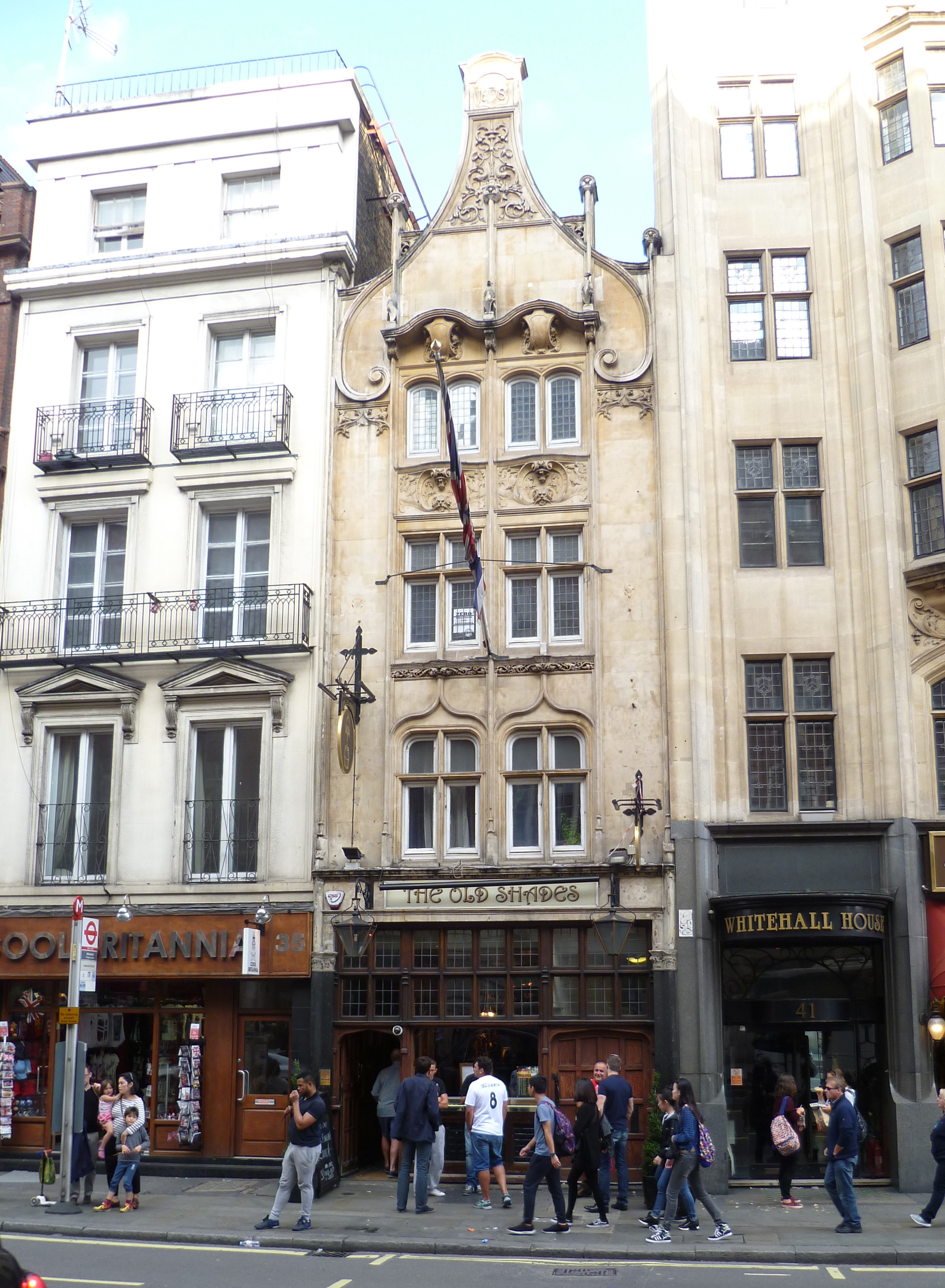 The Old Shades pub